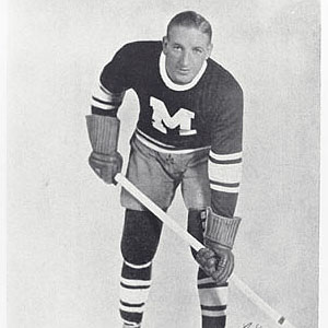 Russ Blinco in a Montreal Maroons uniform.